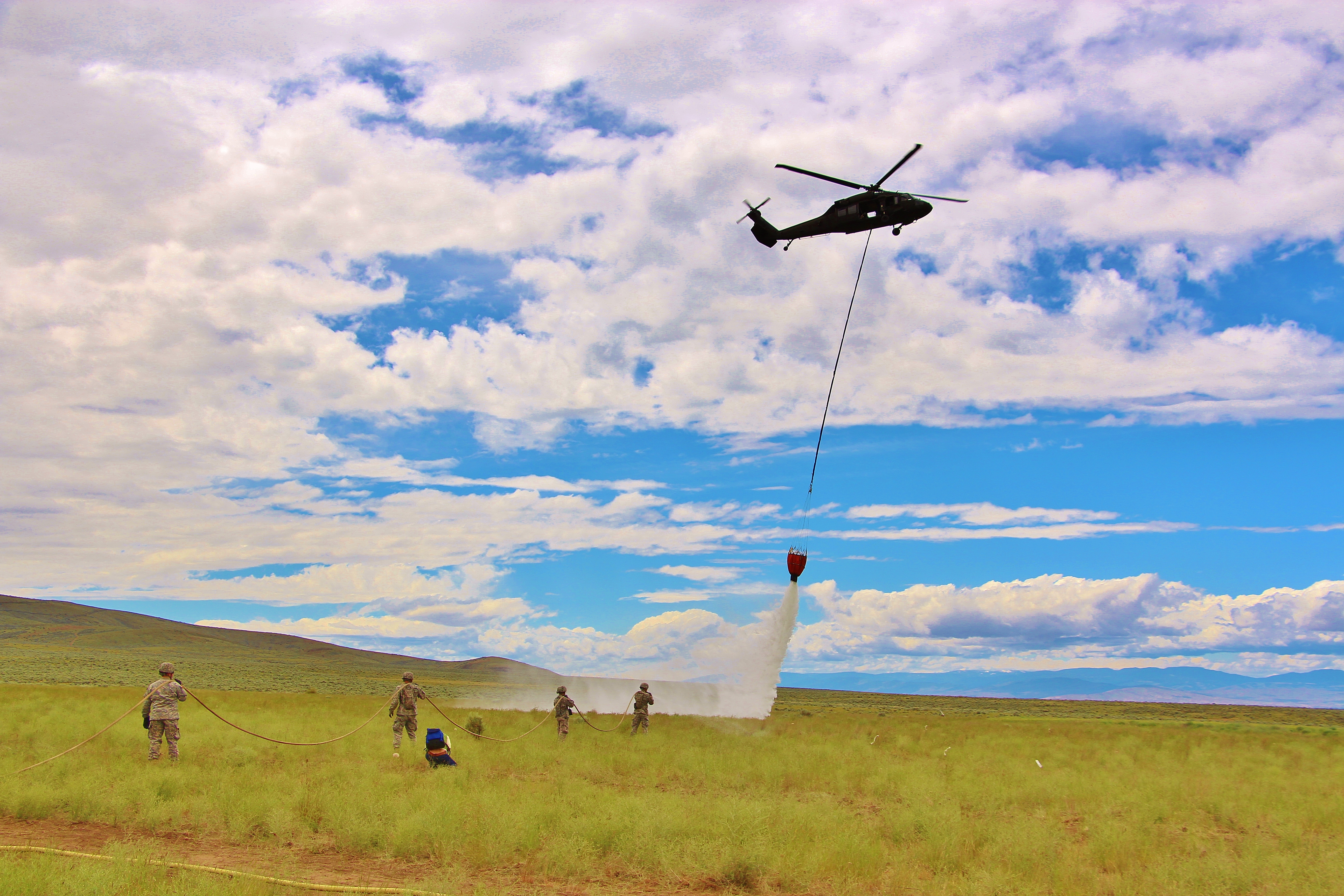 The Washington National Guard trained to fight forest fires in Eastern Washington on June 18, 2013.